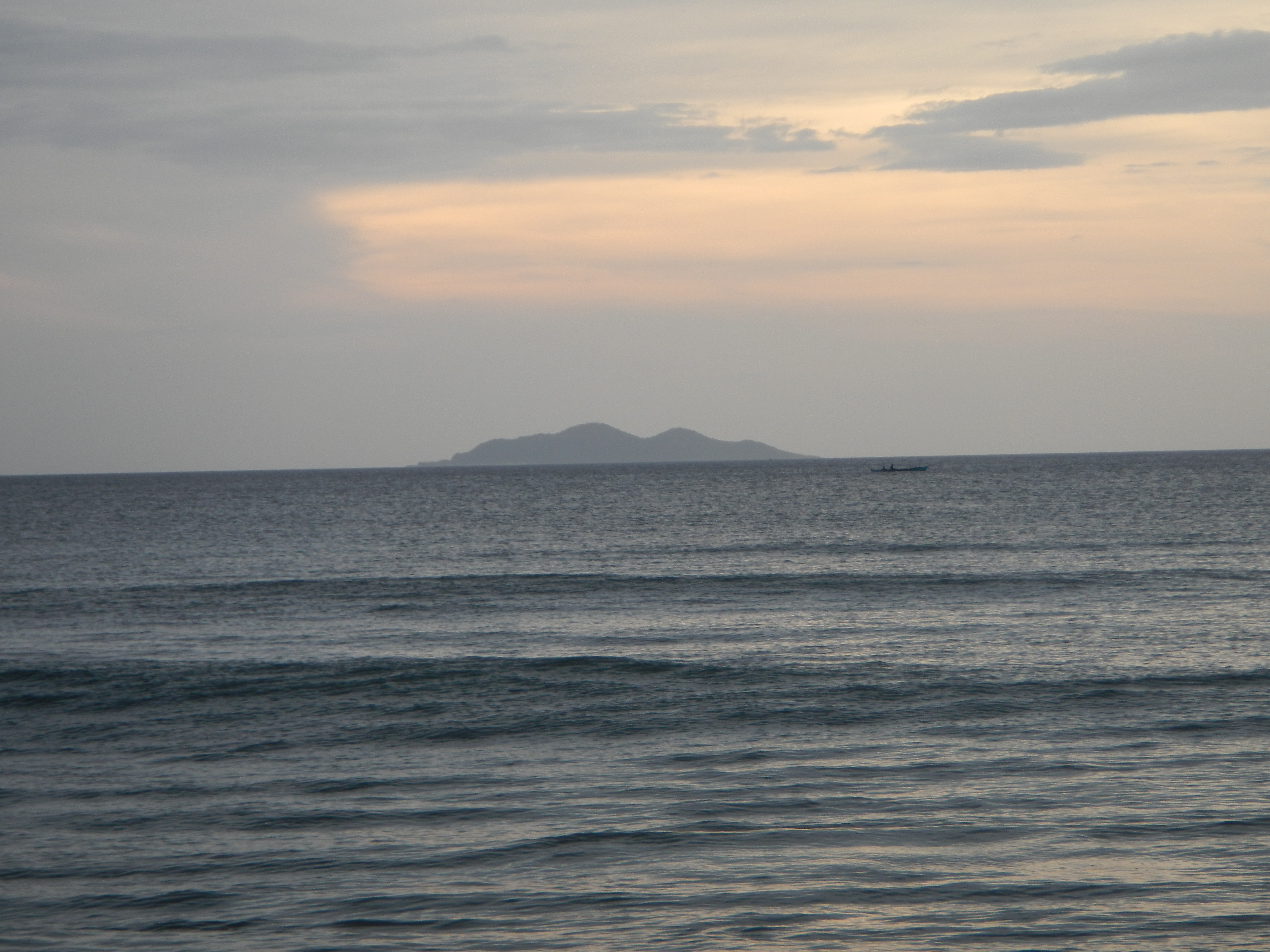 Upload Wizard photos of - Nasugbu, Batangas[1] - Town Proper, Centro, downtown, the Multi-Purpose Hall Building beside the Nasugbu Public Market Poblacion Barangay X, the fishes and varieties of seafoods of the Philippines - and the beautiful Beaches - - "Pagdaong sa Nasugbu" - this seashore beach site is the place of the Allied Forces Landing - the soldiers of the First Batallion and 188th Glider Infantry of the 11th Airborne Div. 11th Airborne Division (United States) [2] on January 31, 1945 for Liberation of the Philippines against Japan under Eighth United States Army U.S. Eight Army[3] Lt. Gen. Robert L. Eichelberger - R. Eichelberger, CG[4] 11th Airborne Div. 11th Airborne Division (United States) [5] US Army Lt. Gen. Joseph May Swing, [6] CG Group VII 'Phib Rear Admiral Fechteler - Filipino Forces Col.Terry Magtanngol Adevoso, Overall Commander 4th ROTC Division - Hunters Guerillas - also Lt. Col. Marcelo Castillo and Col. Eleuterio L. Adevoso (b. February 20,1921-d. March 22,1975) was a guerilla leader and officer of the famous Hunters ROTC Guerillas - January 31, 1992 Memorial - Philippines Campaign (1944–45) [7] Battle of Luzon[8]